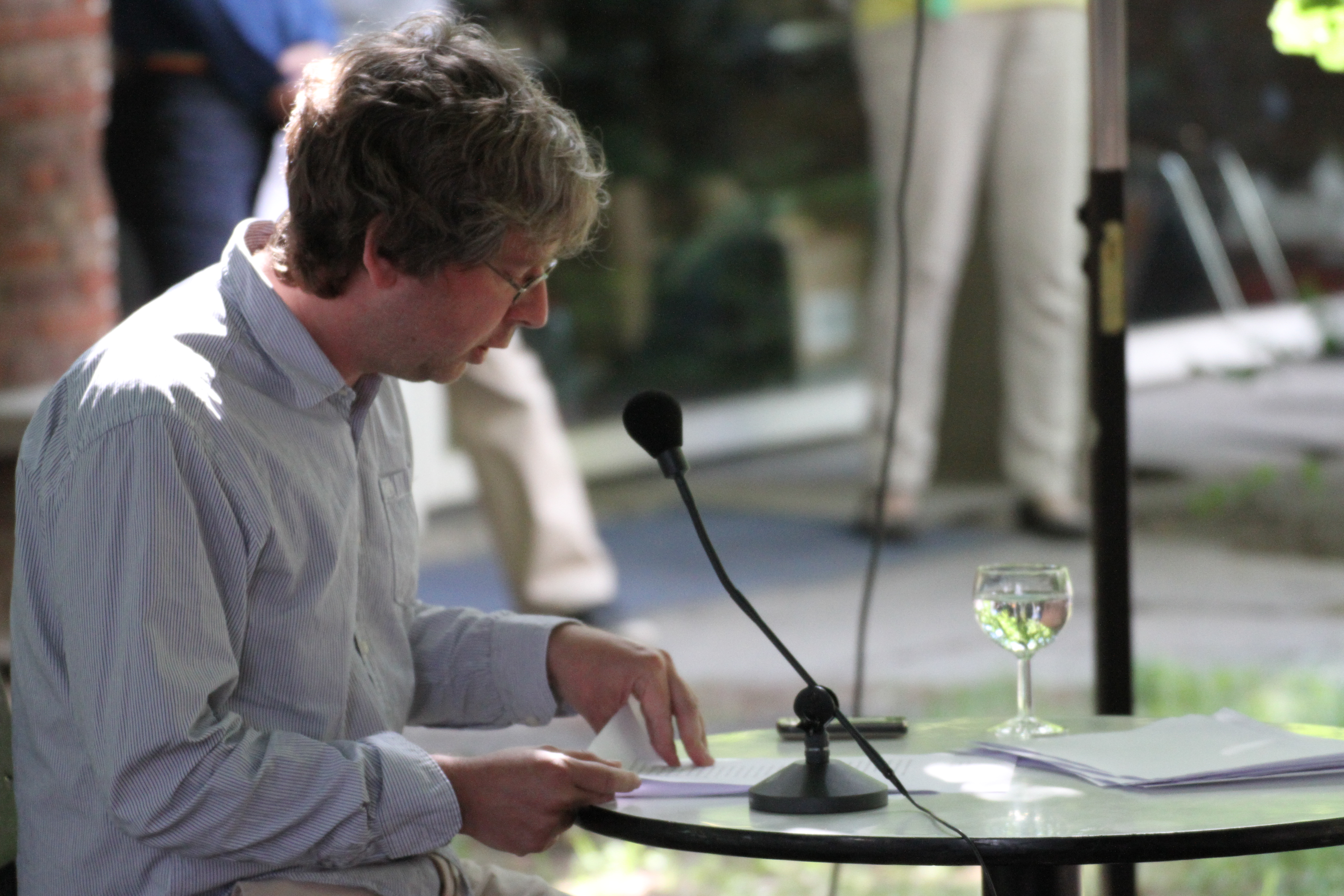 Timo Berger at the Lyrikmarkt in Berlin 2016